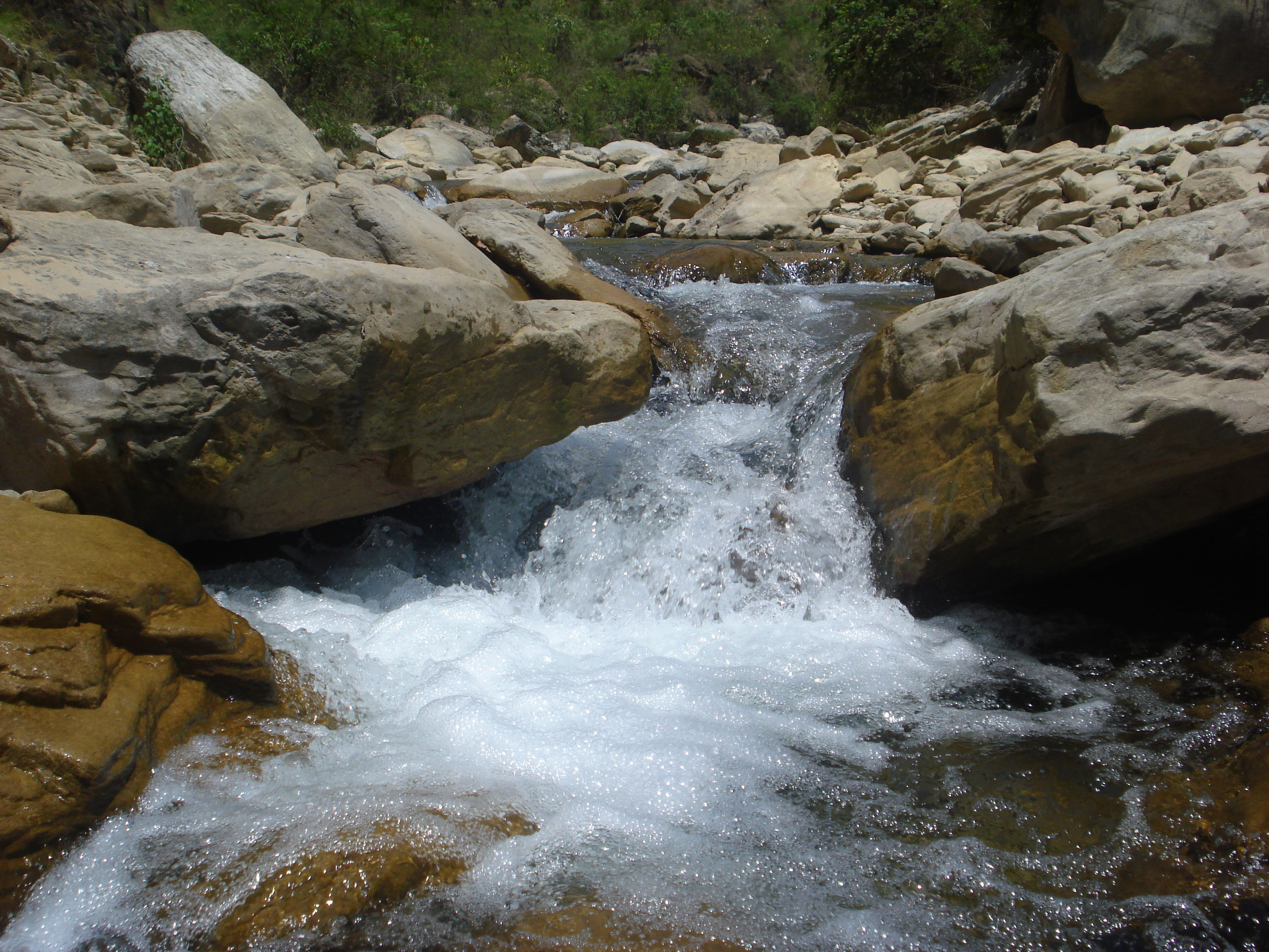 Sundarijal